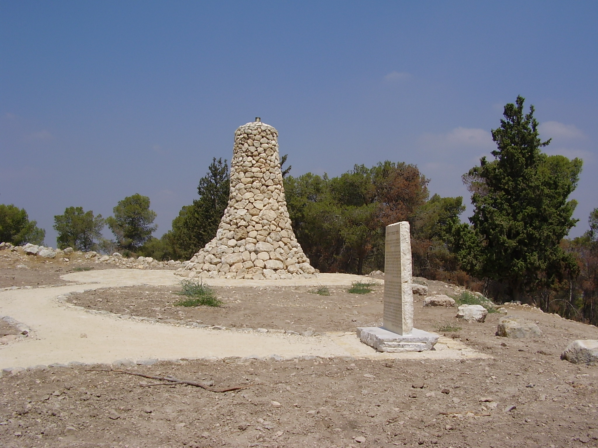 hagana memorial in johnathan hill in giboa mountains